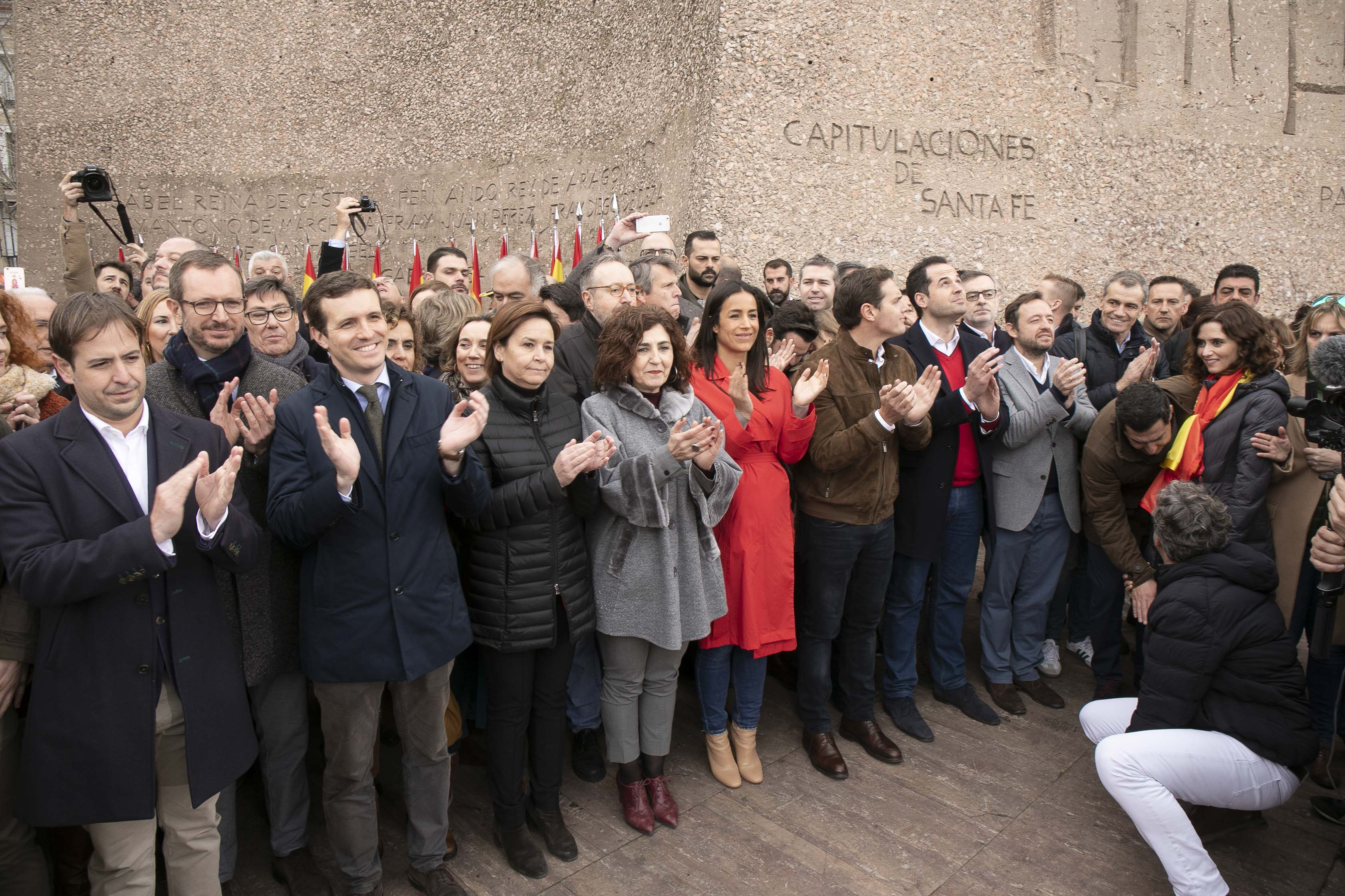 Concentración en Plaza de Color contra Pedro Sánchez.